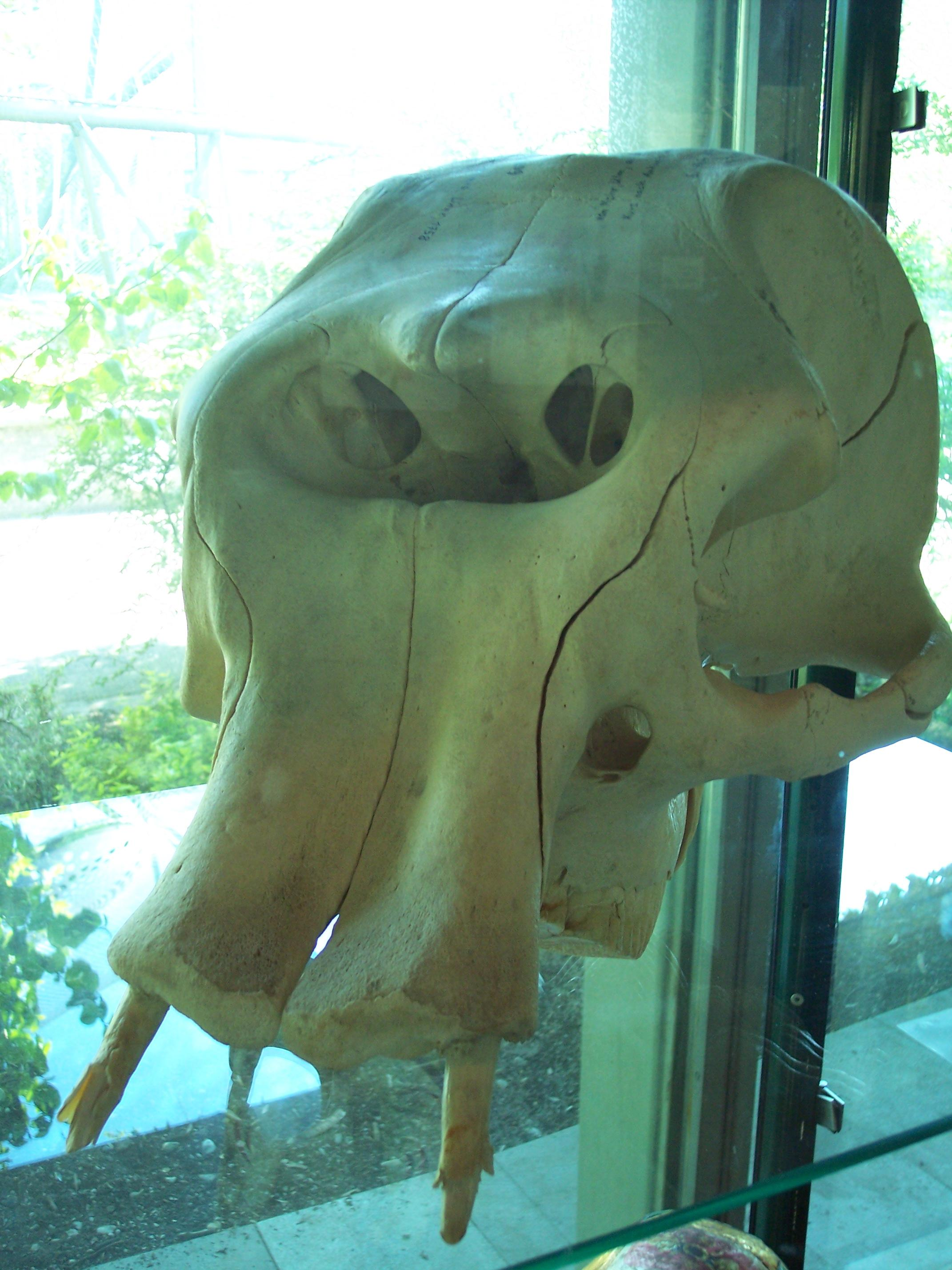 scull of a dwarf elephant on display in Hellabrunn zoo of Munich, Germany